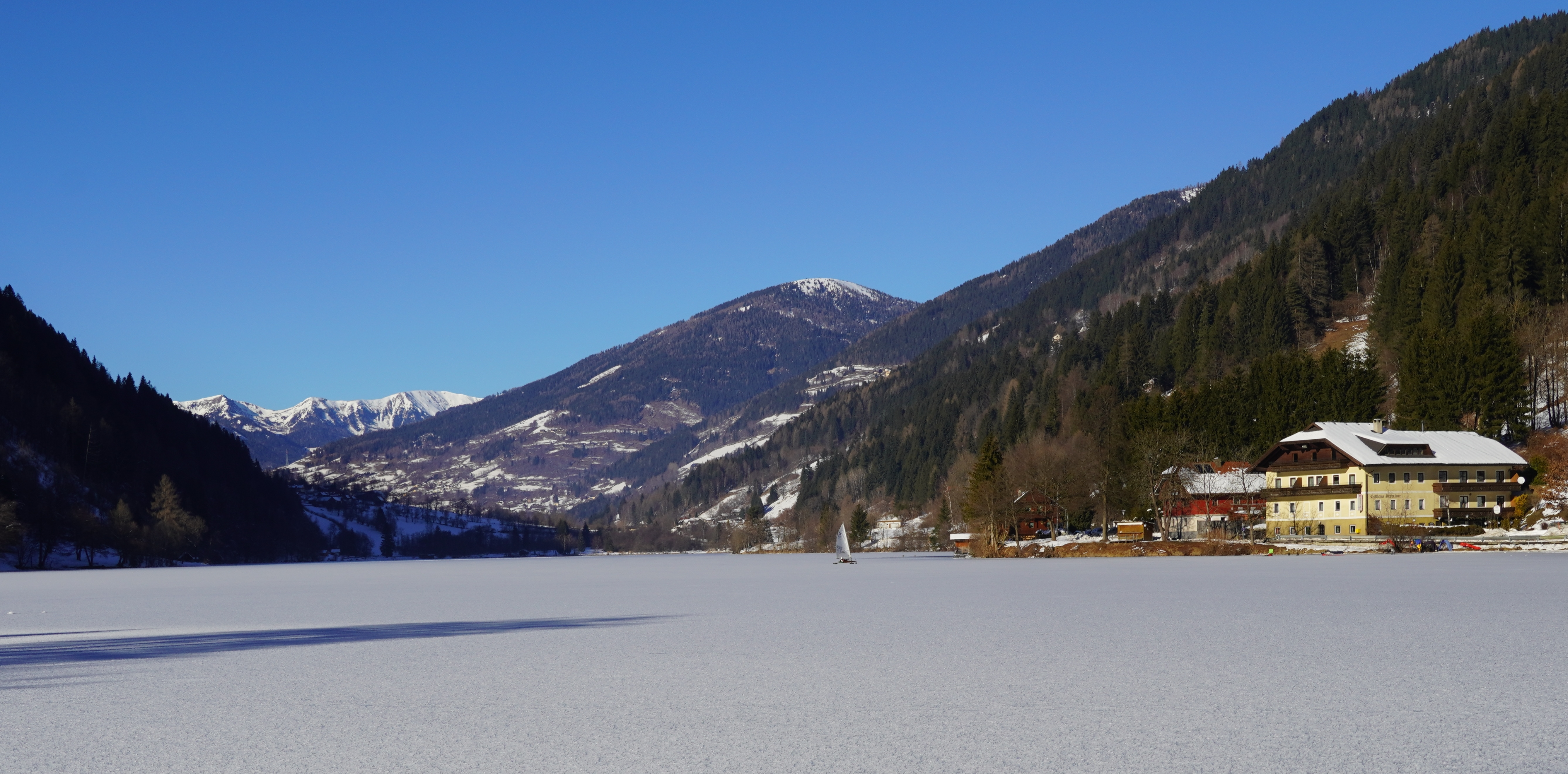 Lake Afritz / Carinthia / Austria